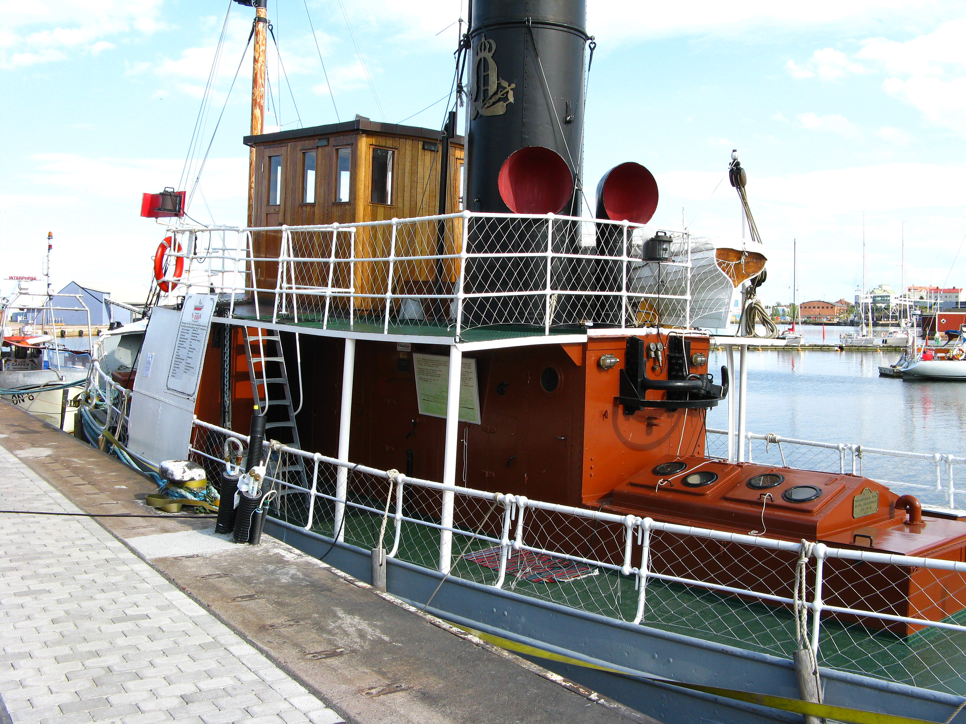 Tugboat S/S Nalle built 1923 in Oskarshamn Sweden. This is an image of the protected Swedish ship S/S Nalle, with call sign SMUO .